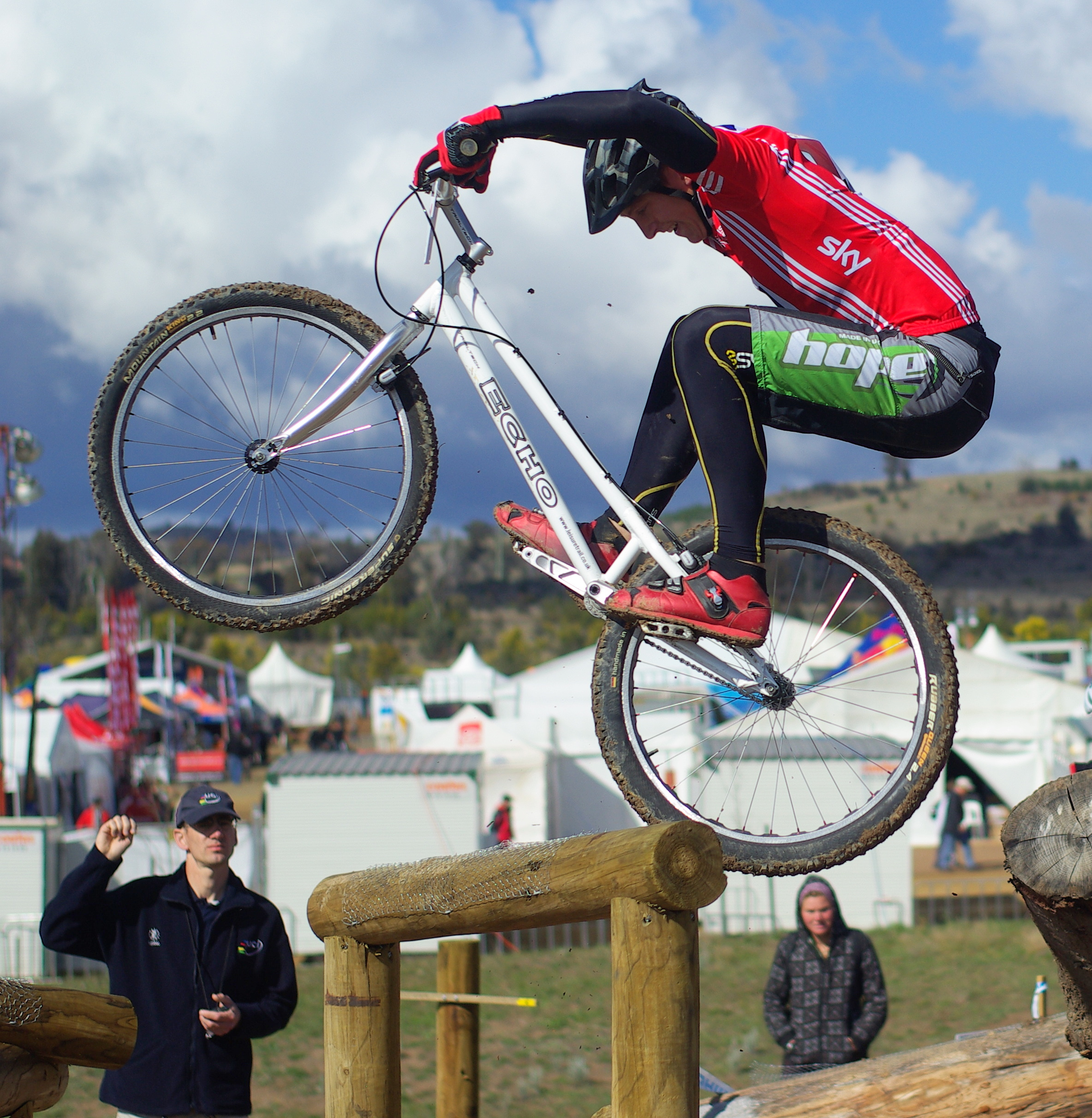 Competitor in the observed trials events at the 2009 UCI Mountain Bike & Trials World Championships held in Canberra, Australia.